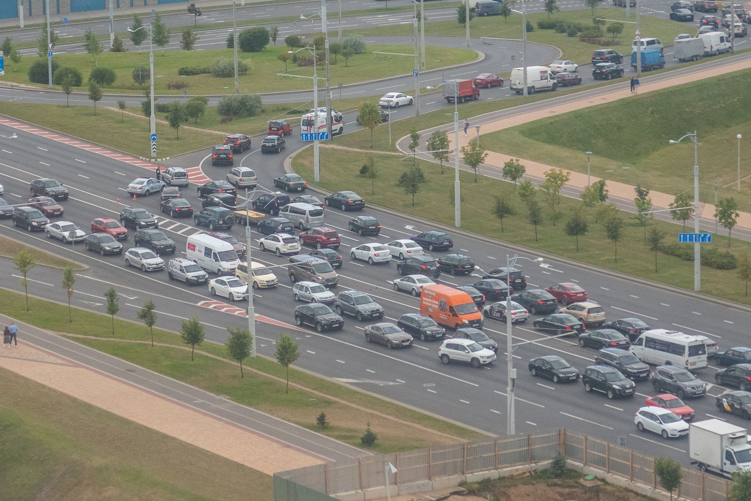 Traffic police closing Niezaliežnasci avenue because of mass protests. Minsk, Belarus